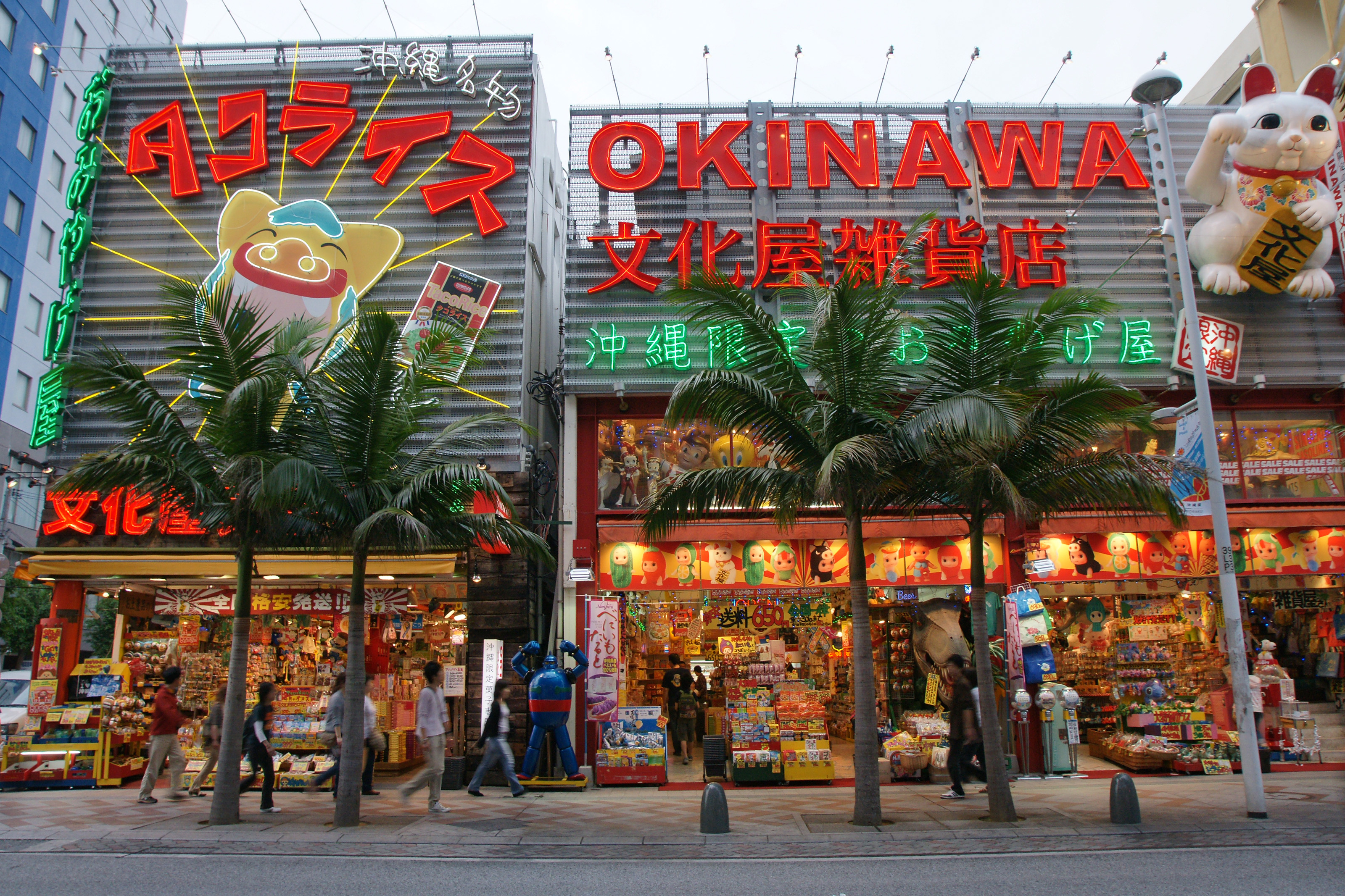 Kokusai-dori (Kokusai street), Naha, Okinawa prefecture, Japan